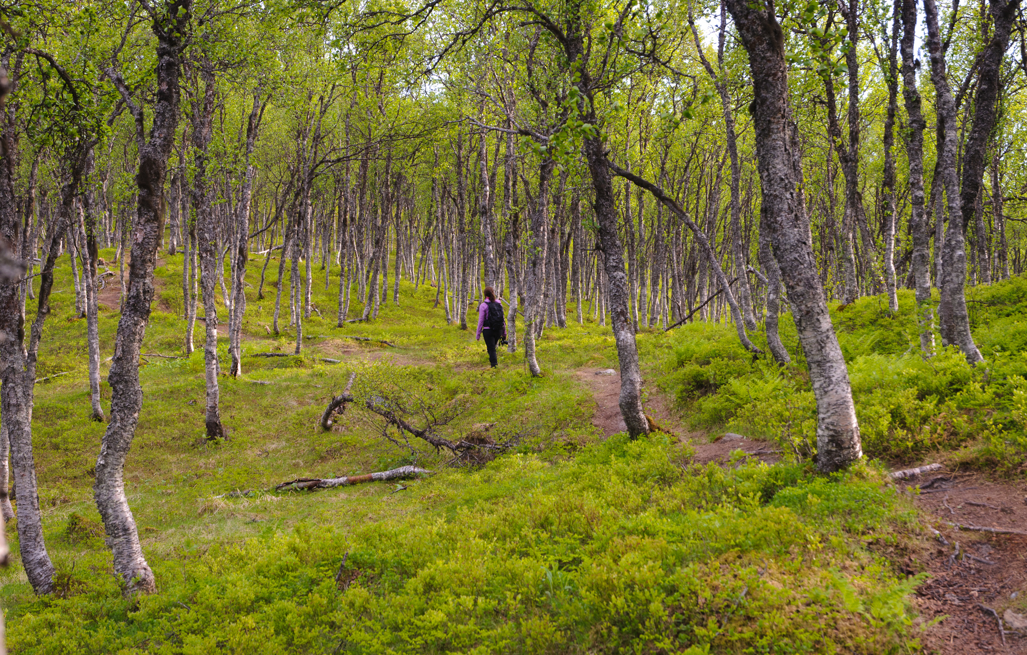 Birch forest in Tromsø in early summer